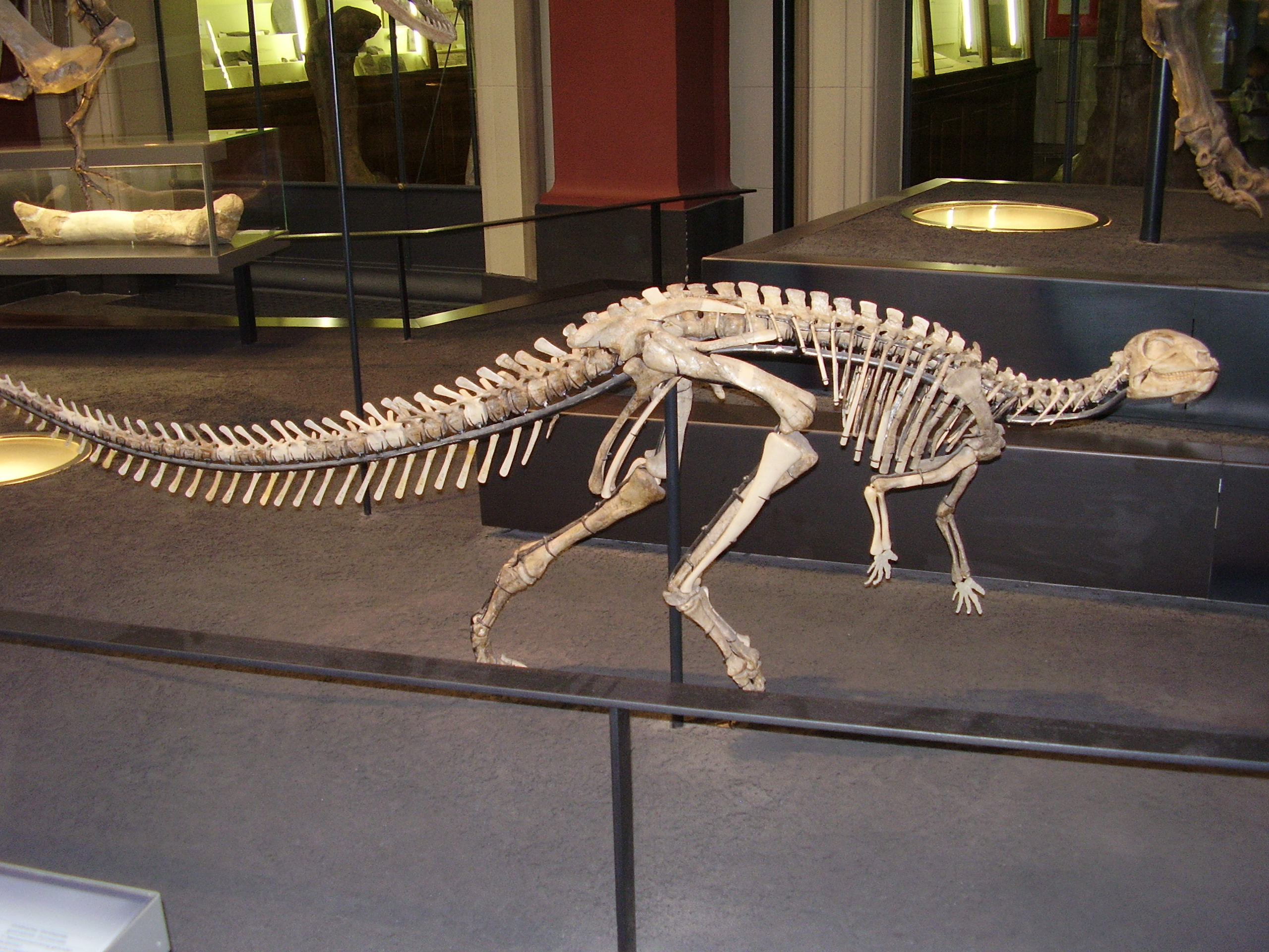 Skeleton of dryosaurid iguanodontian Dysalotosaurus.